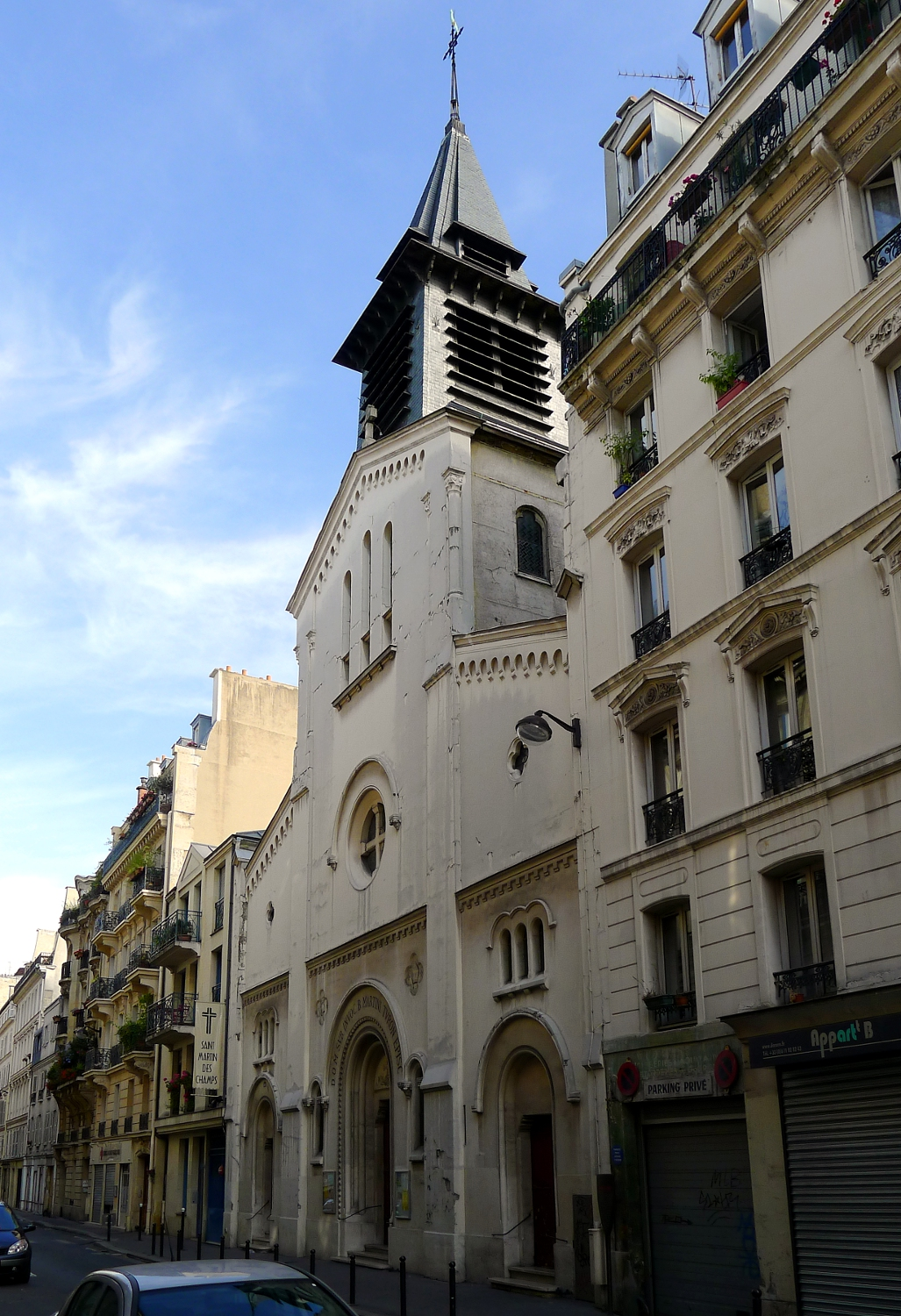 Saint-Martin-des-Champs church - Paris